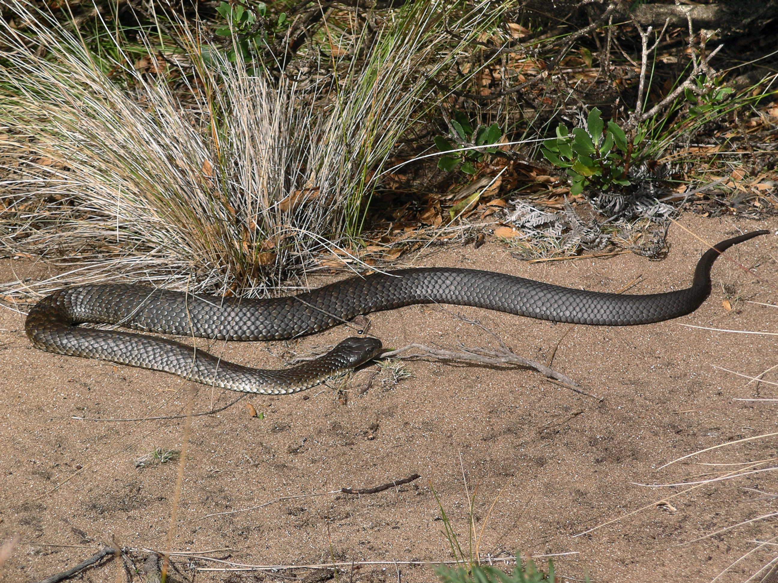 Tiger snake sunning itself on sand near Petrified Forest on King Island, Australia